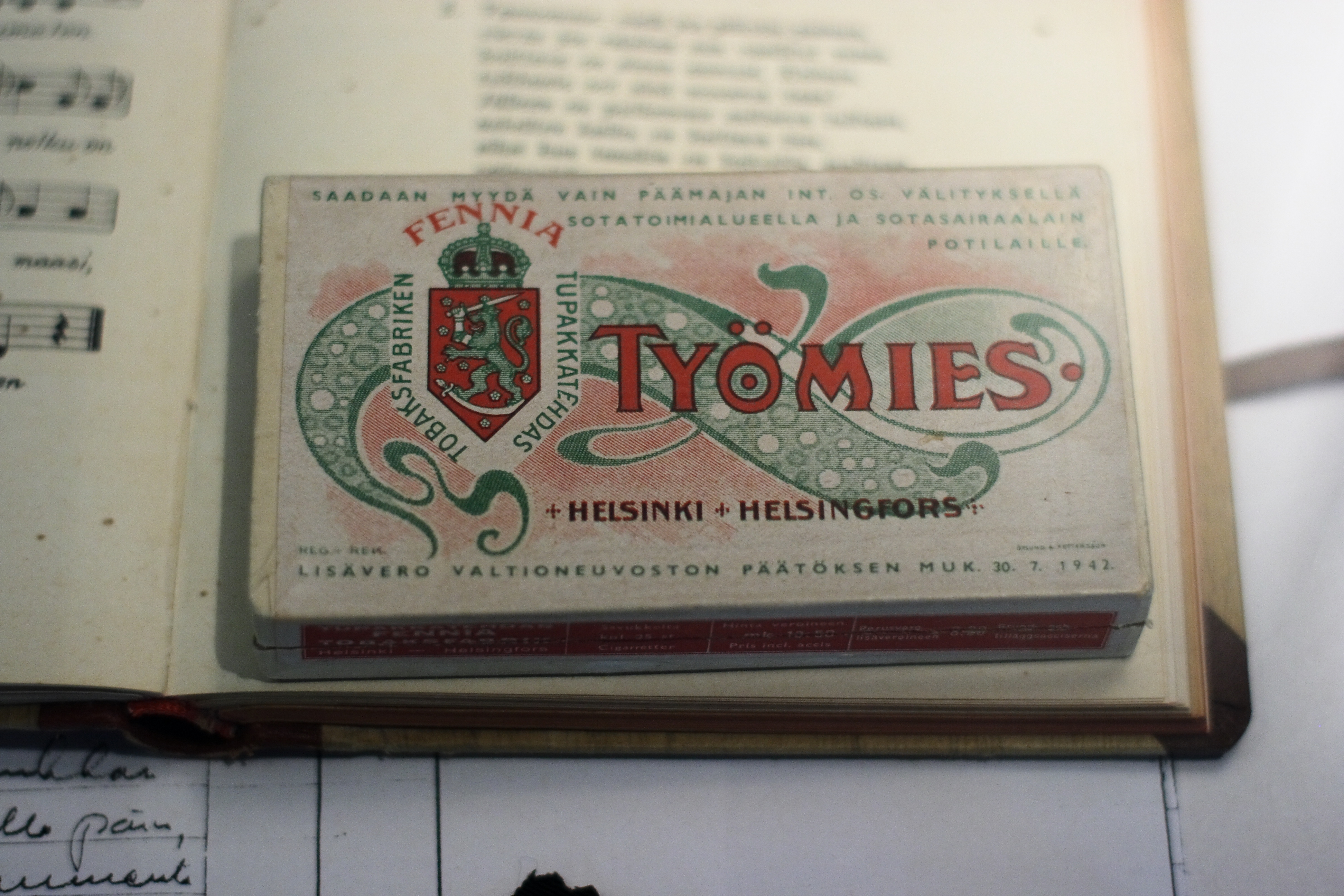 Työmies cigarette package. Työmies was produced in 1902–1984 by Tupakkatehdas Fennia.